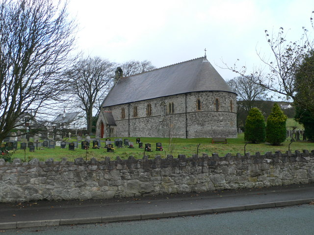 St Paul's Parish Church, Rhosesmor St. Paul's church was consecrated on 21 April 1876. The new parish of Caerfallwch was created on 23 October 1876, from part of the township of Caerfallwch, which until that time had been in the parish of Northop. Although the official (Church in Wales) name for the parish is still Caerfallwch, the area is more generally known as Rhosesmor.